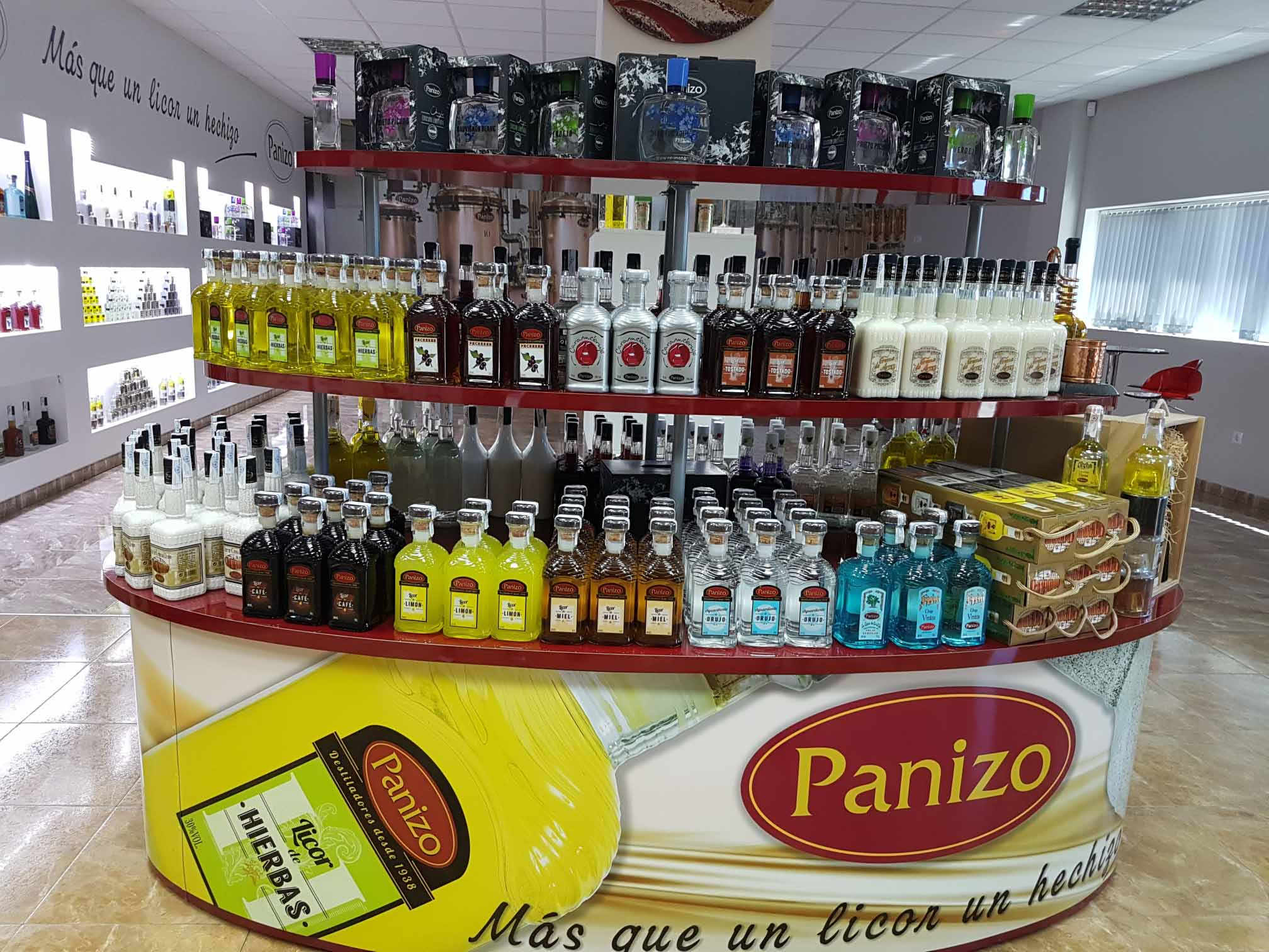 Liquors